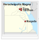 Map of (pre-dynastic) Egyptian Pharaoh Ny-hor